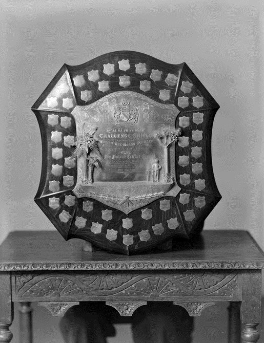 Plunket Challenge Shield cricket trophy